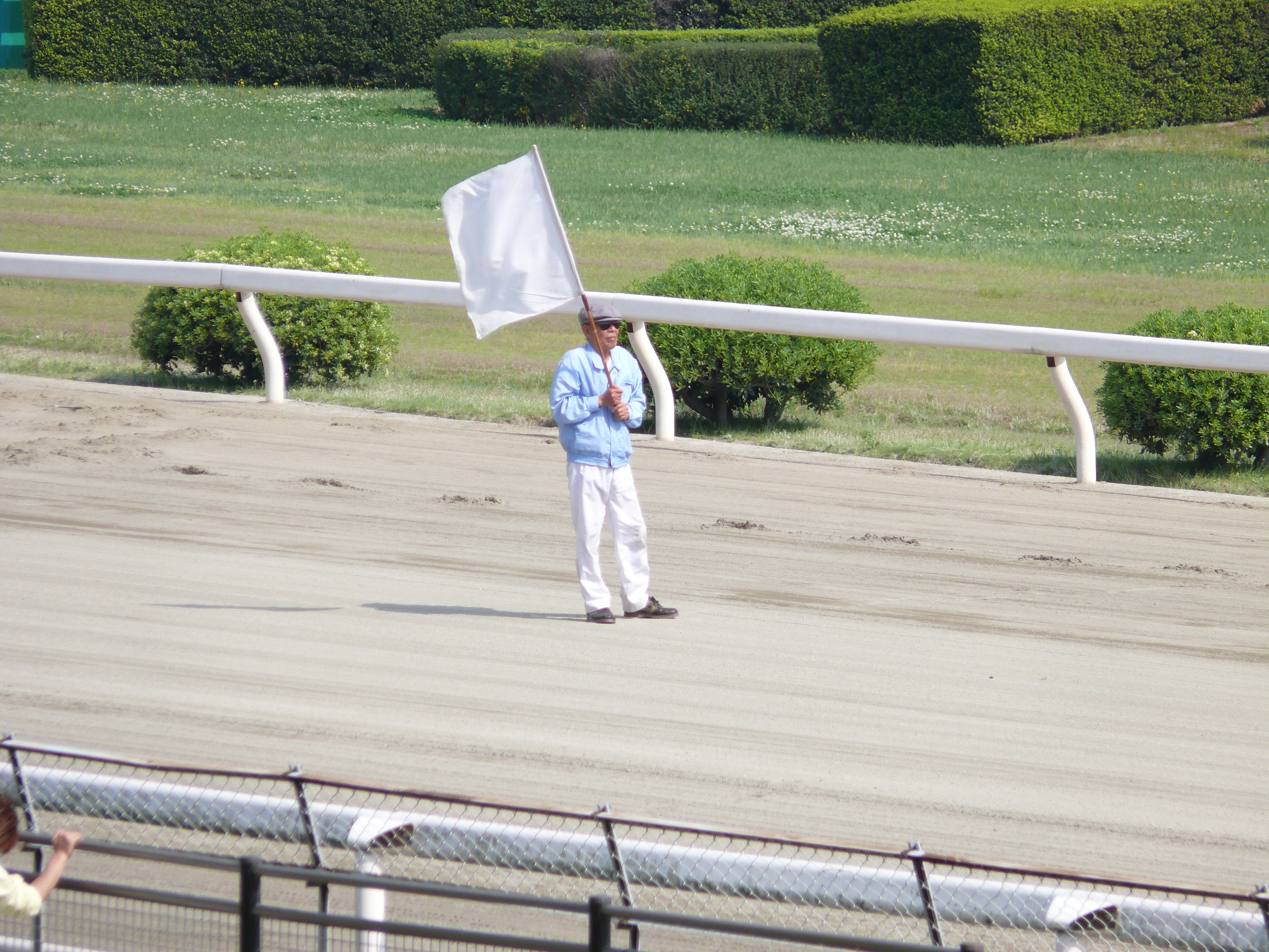 Nagoya Racecourse.